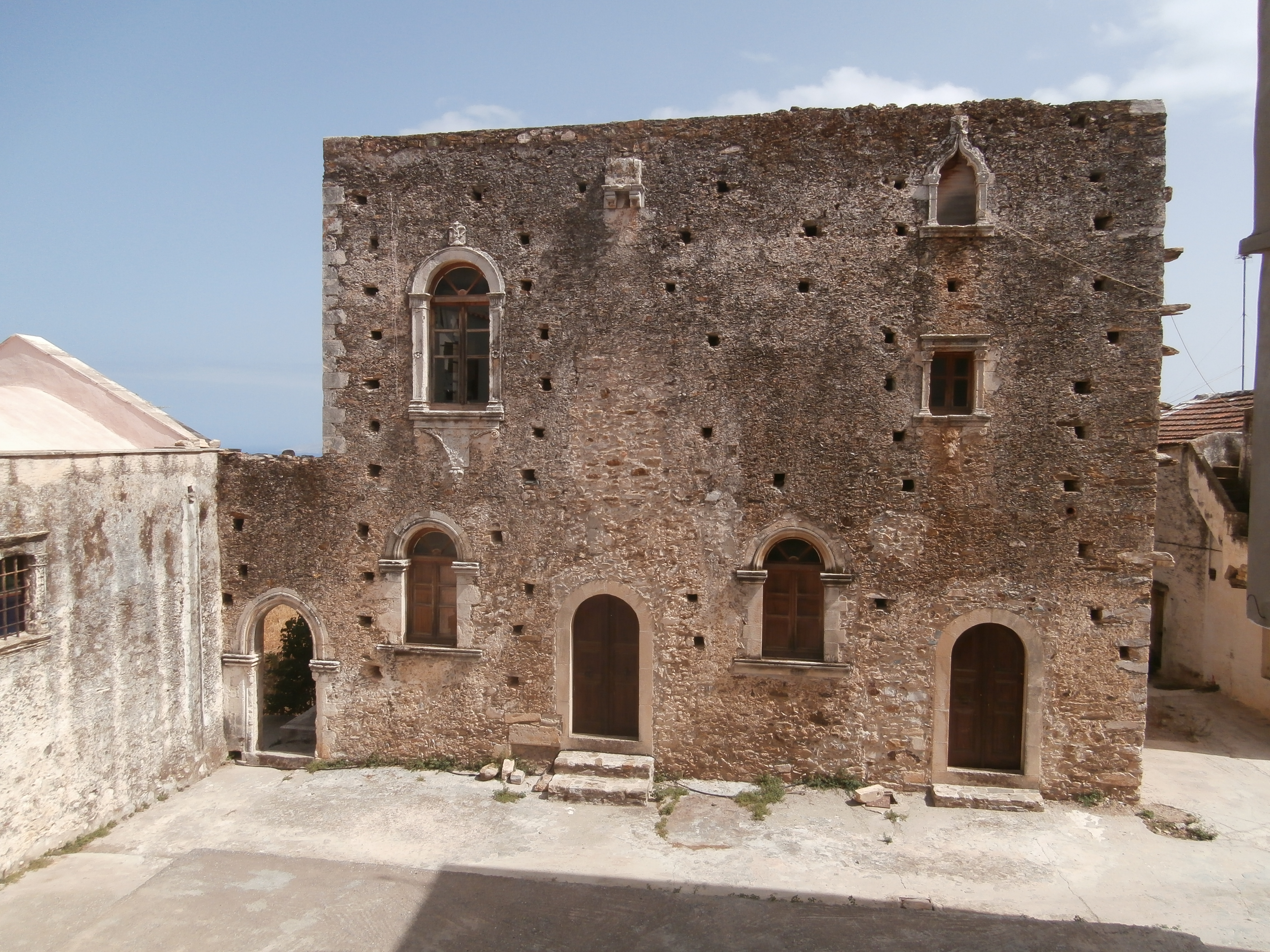 The 15th century venetian mansion in Rodia. Althought it was not a defencive construstion, it is many times referred as a tower.